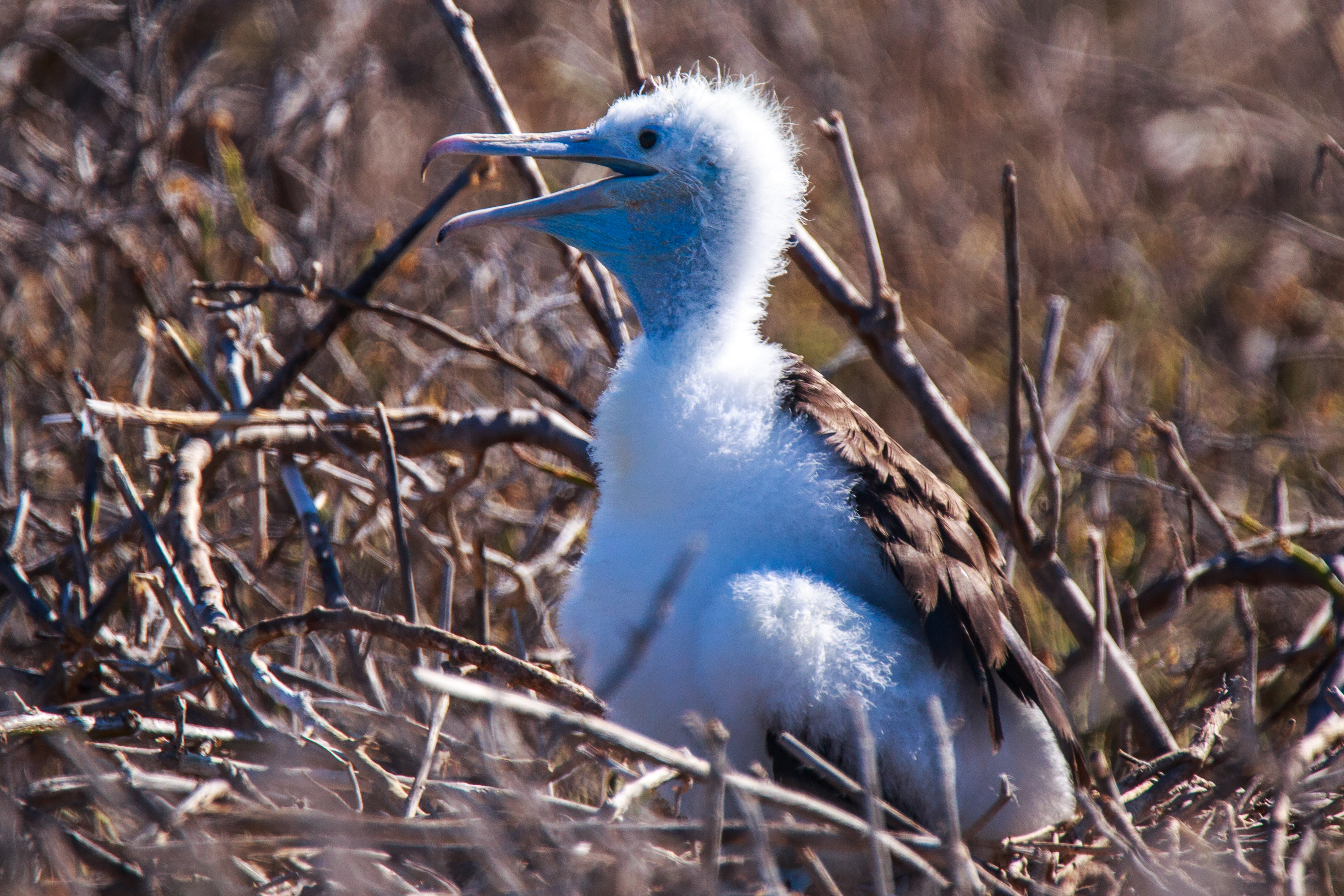 the penultimate land excursion to the SW tip of Isla Seymour Norte...young Magnificent Frigatebirds ((Fregata magnificens)